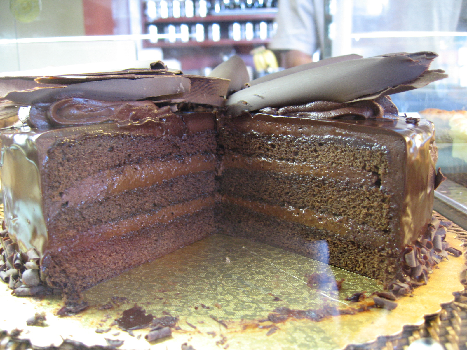 Chocolate cake with chocolate frosting topped with chocolate shavings, misocrazy (flikr) [1], attribution required